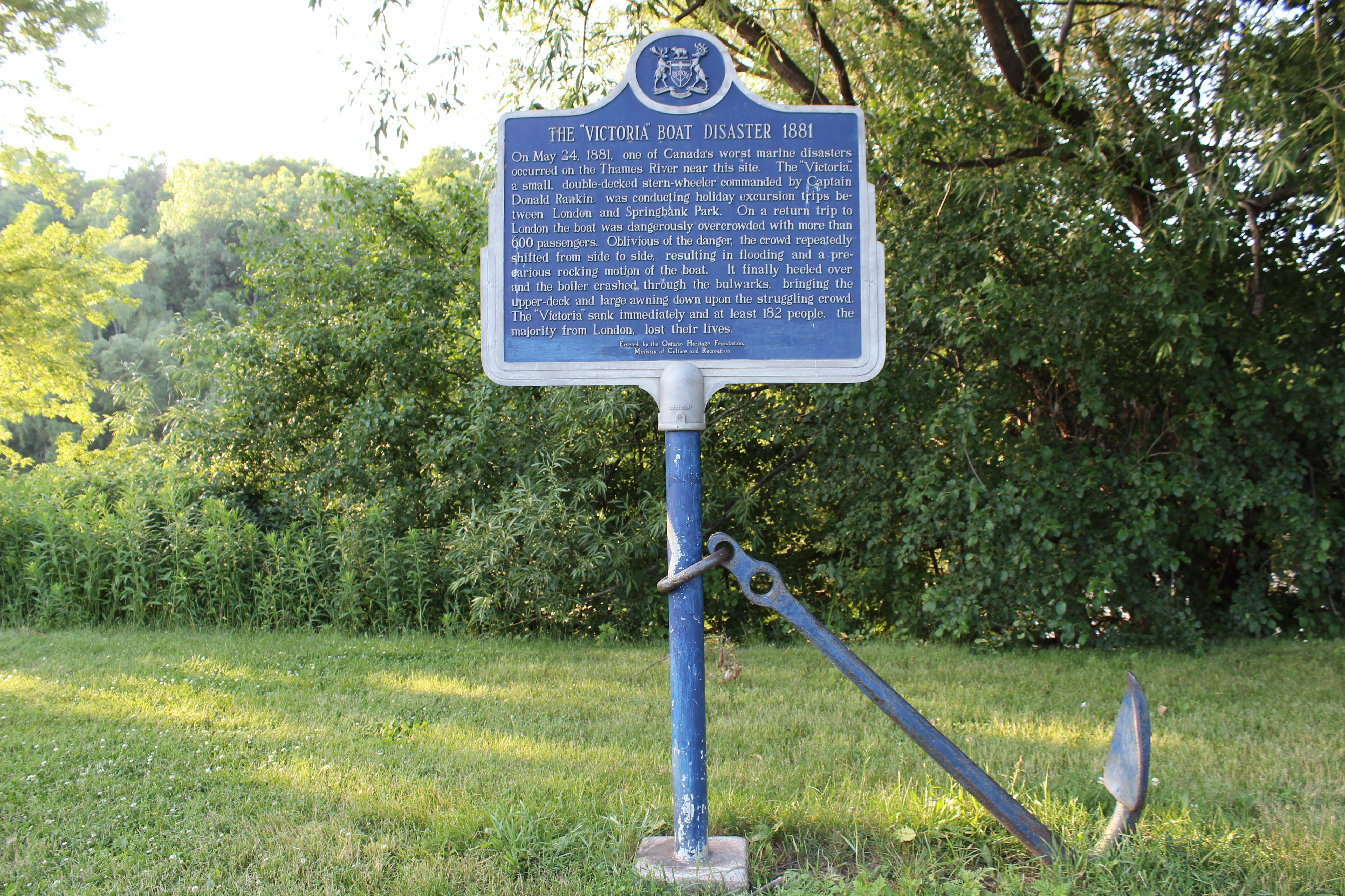 London, Ontario. On May 24, 1881, on Queen Victoria’s 62nd birthday, the river steamer Victoria careened and rolled over near Cove Bridge and the bend in the Thames River. Although the shore was only meters away, the water was 17 feet deep. Tragically, one-third of the passengers aboard the Victoria were killed, a total of 182 people all from the London area, 110 of whom were children. Mother Ignatia Campbell, of the Sisters of St. Joseph, sent her Sisters out in pairs to visit any house, Catholic or Protestant, wherever their services would be of use. The Sisters comforted and consoled the bereaved. Few families did not lose a relative and every family lost a friend. Photo credit: Meghan MacKrous